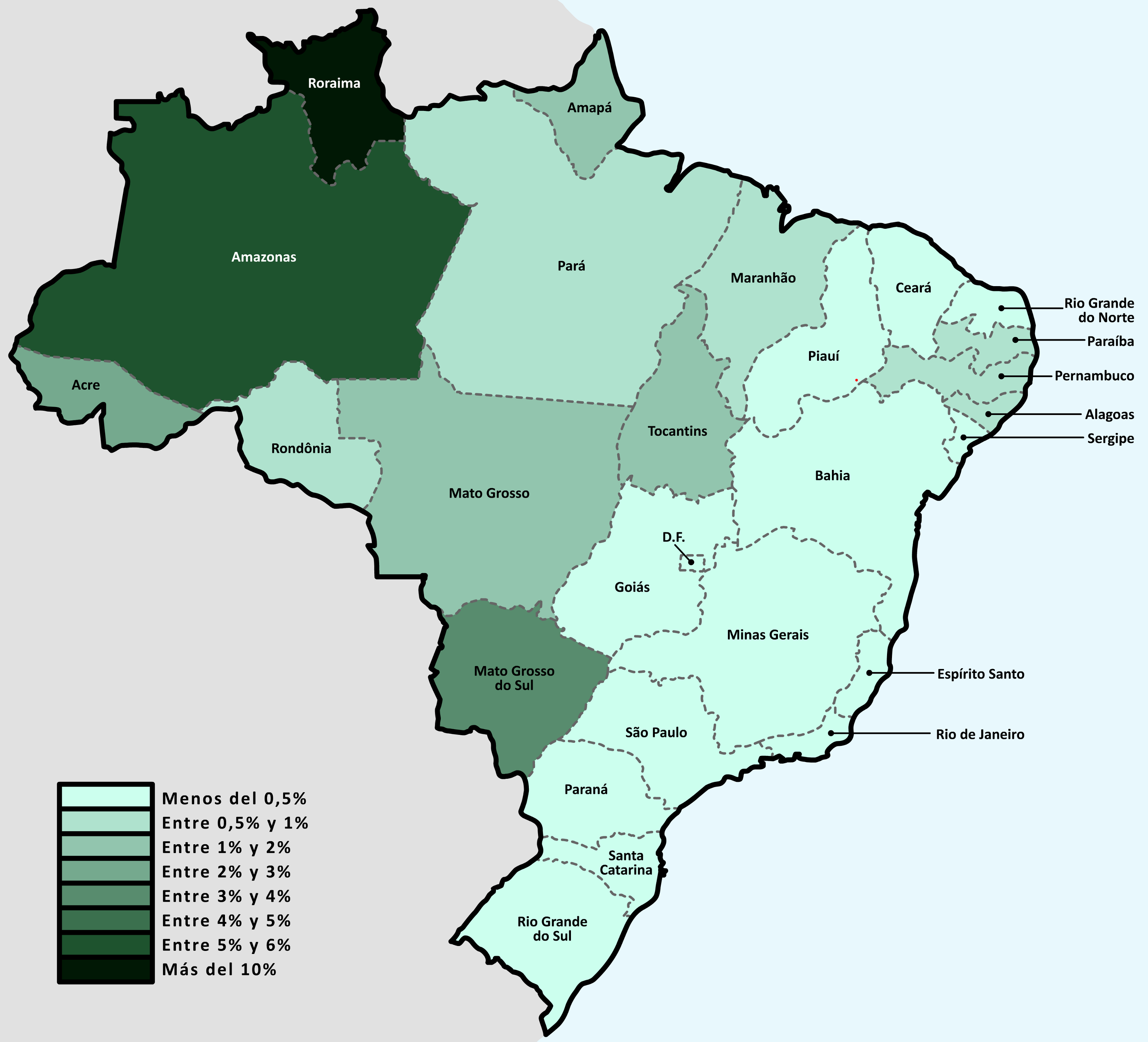 Map of the percentage of the indigenous population of Brazil by states. Source: 2010 census of the Brazilian Institute of Geography and Statistics.